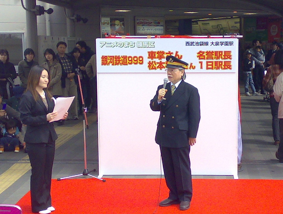 Anime creator Leiji Matsumoto being appointed honorary station master at Ōizumi-gakuen Station on the Seibu Ikebukuro Line in Nerima-ku, Tokyo, Japan